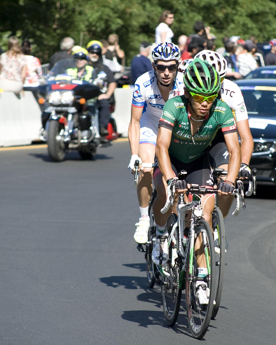 Arashiro Yukiya during the Grand-Prix Cycliste de Montréal in 2011, in the second curve of the Camillien-Houde way on Mount-Royal.